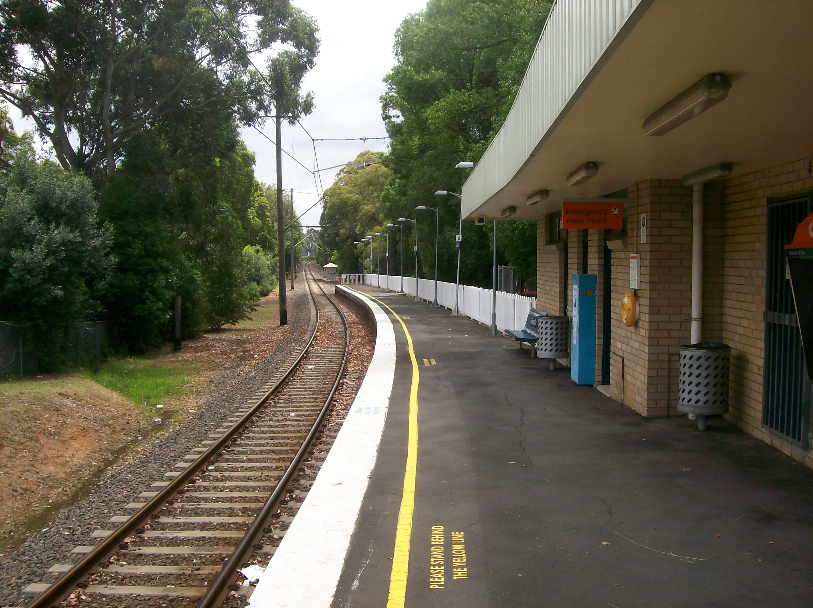 Camellia Railway Station platform